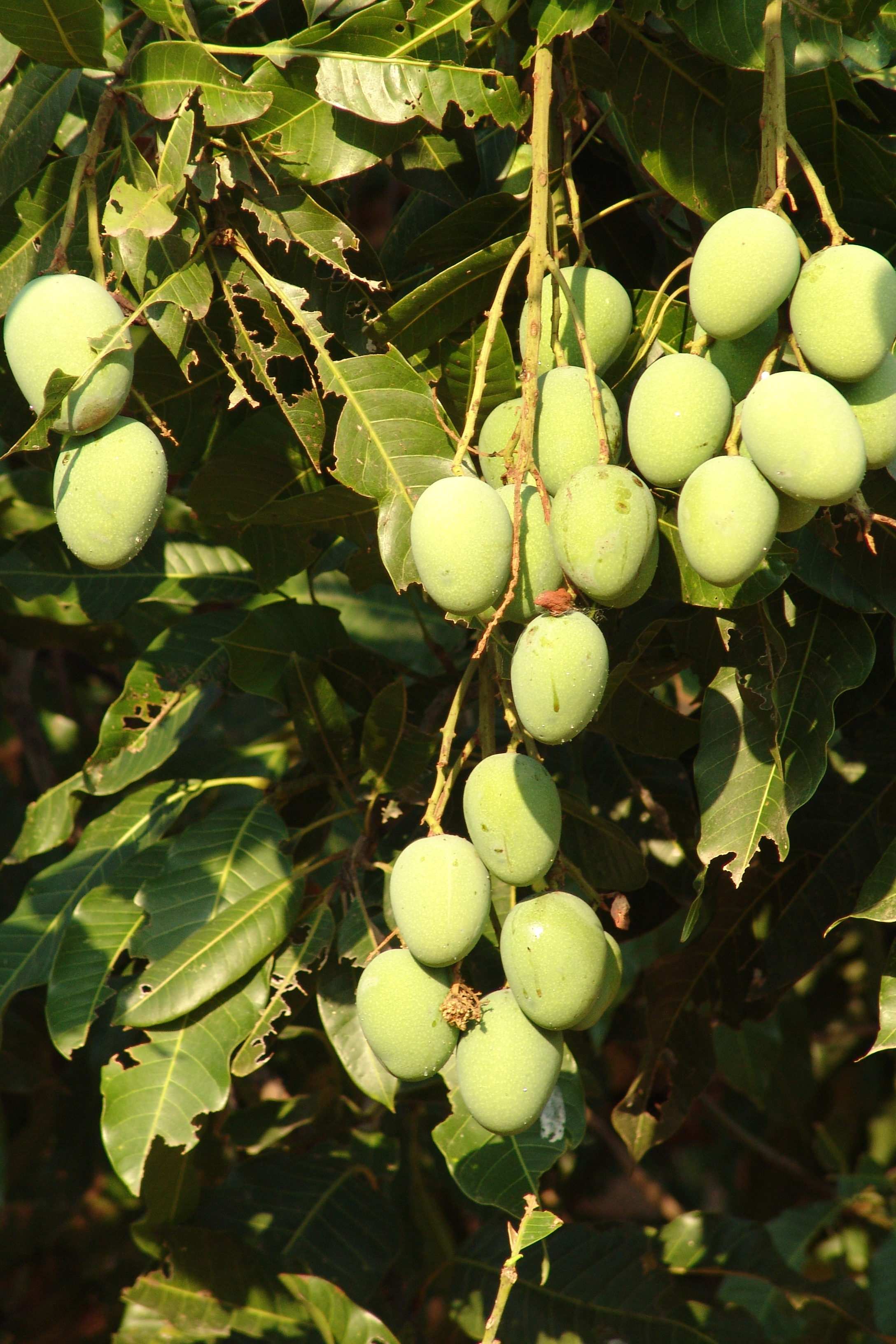 Mango, April 2005, own tree, own work